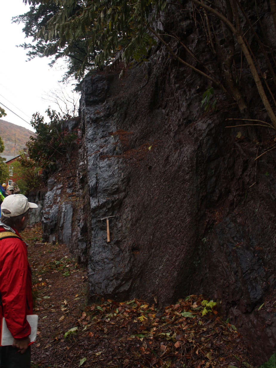 Outcrop of the Silurian Bloomsburg Formation at Port Clinton. Bedding is vertical and cleavage is evident. Rock hammer for scale. Photographed at the 2012 Field Conference of Pennsylvania Geologists, 20 October 2012. Other information cropped from original